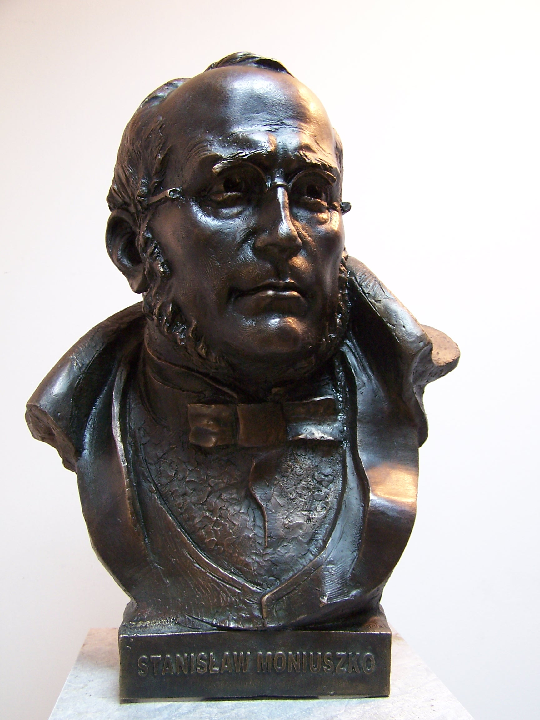 Sculpture by Giennadij Jerszow on the Gdańsk (2007)